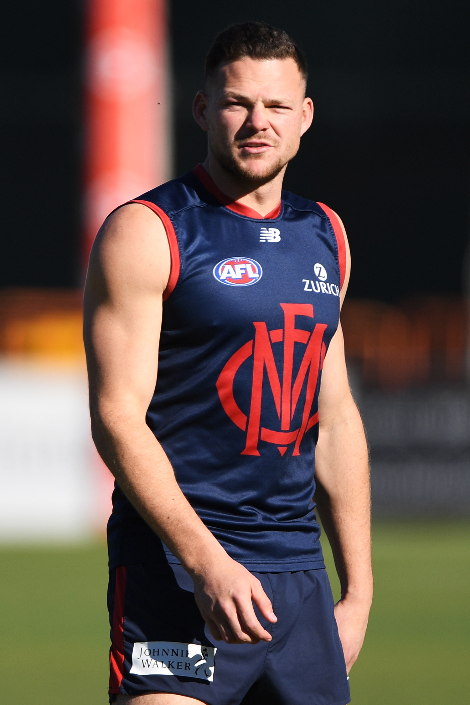 Steven May of Melbourne during Melbourne training at Traeger Park on Saturday, 20 July 2019 in Alice Springs, Northern Territory.